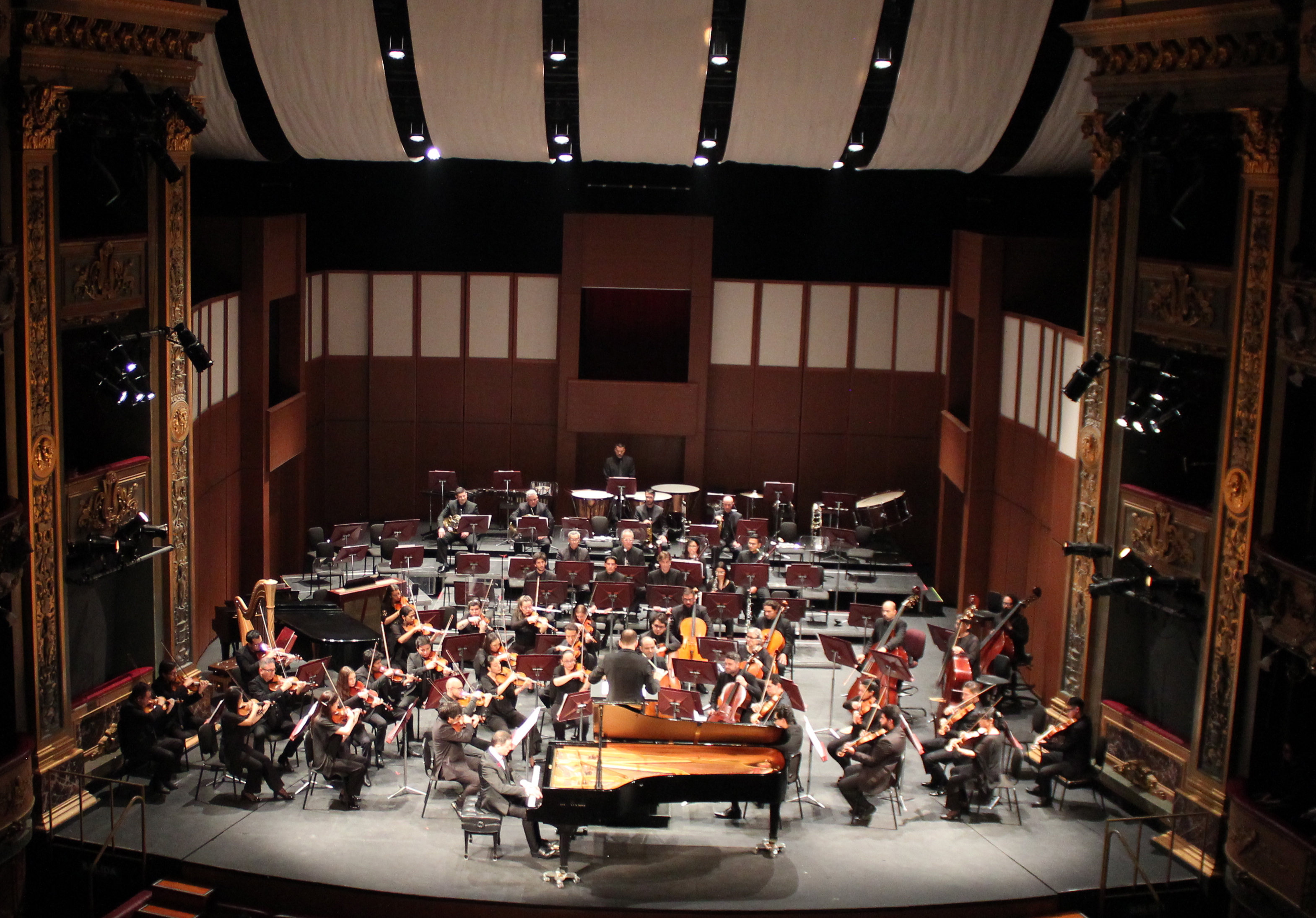 Pianista Giorgi Latso Sinfónica Nacional de Colombia Bogota, Teatro Colón